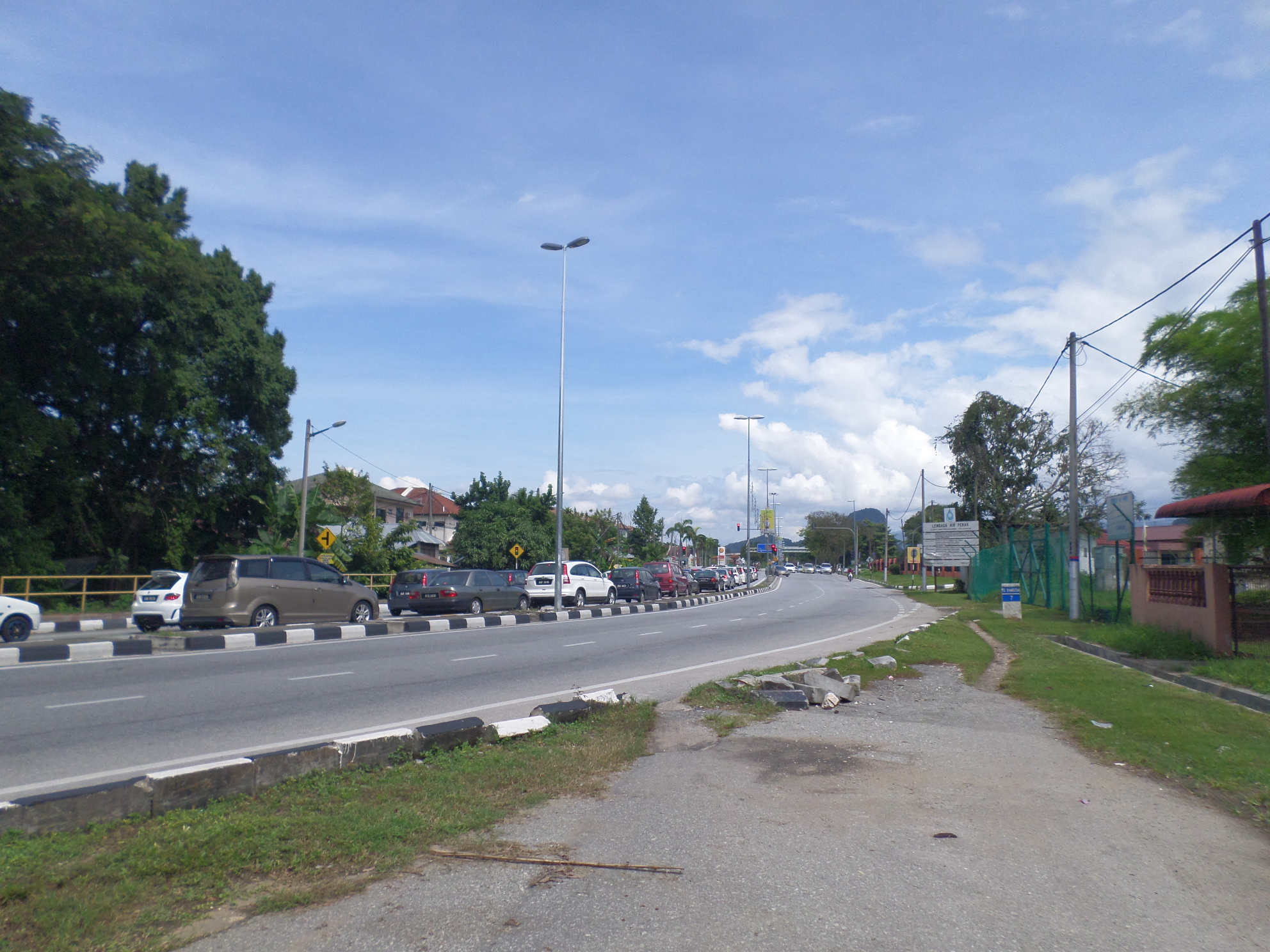 Tambun, Kinta, Perak, MalaysiaBahasa Melayu: Tambun, Kinta, Perak, Malaysia